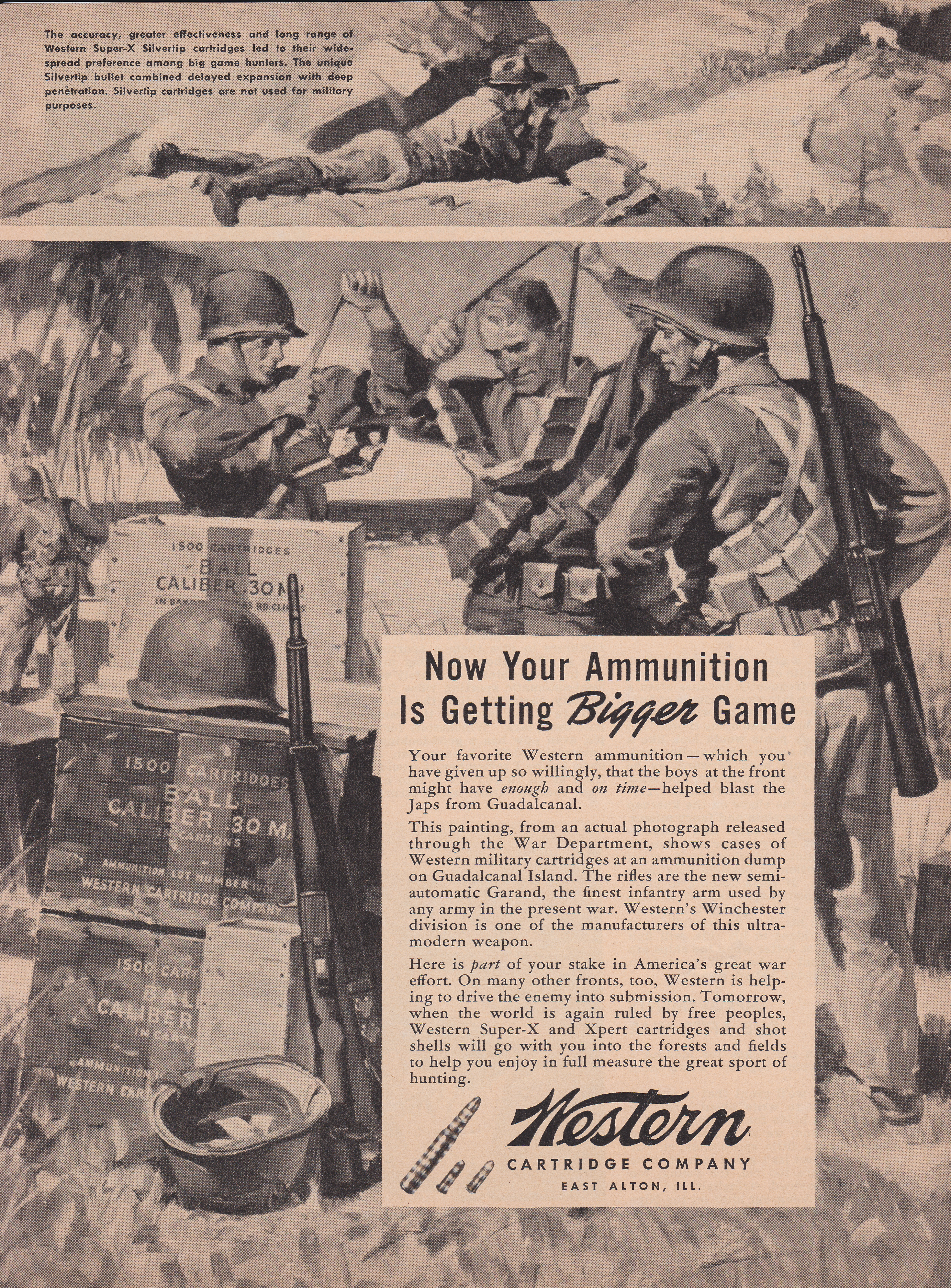 advertisement explaining the shortage of ammunition